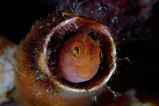 Parablennius zvonimiri photographed in Tuscany (Italy). Photo by Stefano Guerrieri.